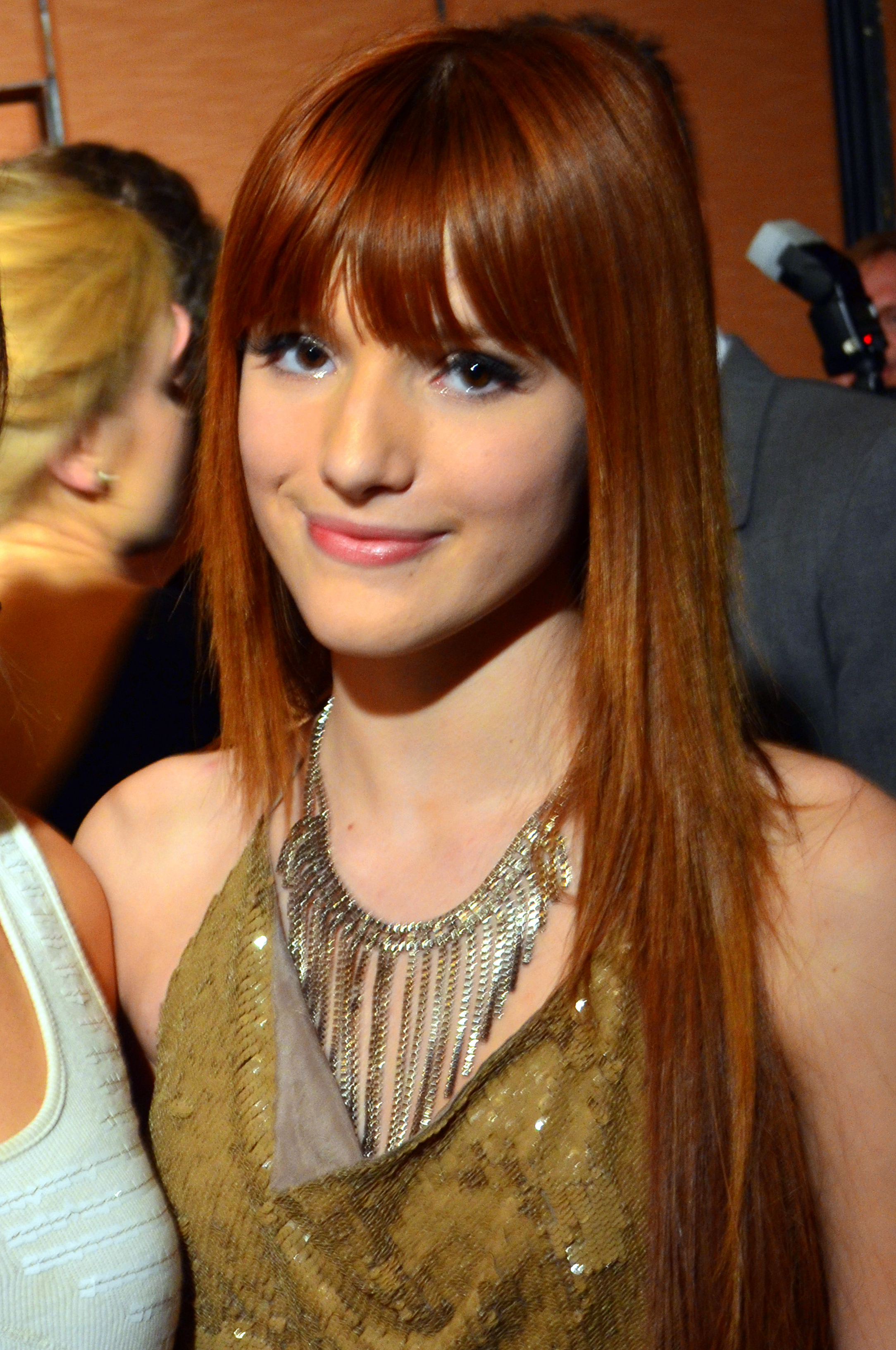 Bella Thorne at the Movieguide 2012 Awards Gala Red Carpet.